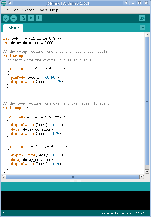 Arduino IDE 1.0.1